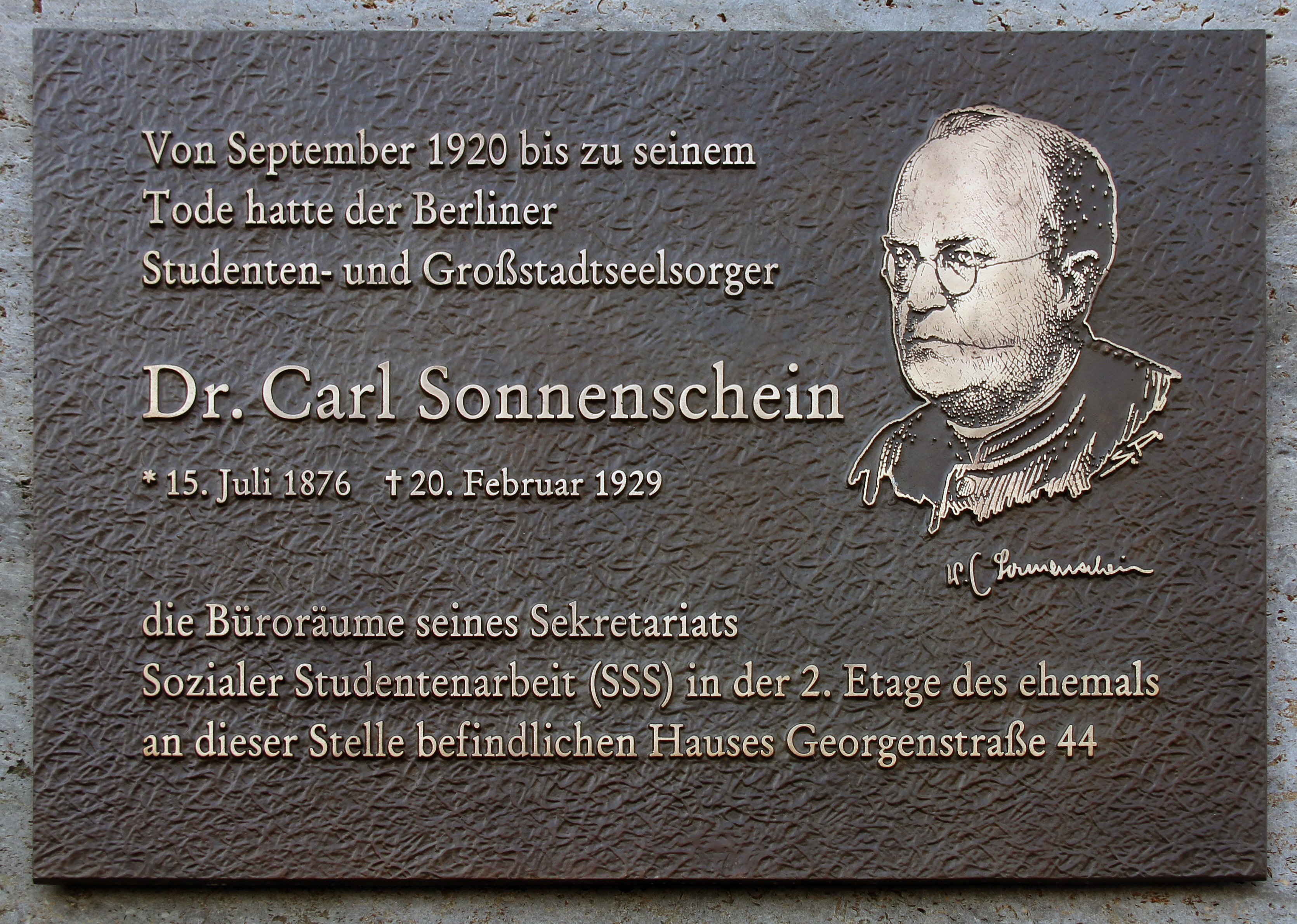 Memorial plaque, Carl Sonnenschein, Georgenstraße 44, Berlin-Mitte, Germany